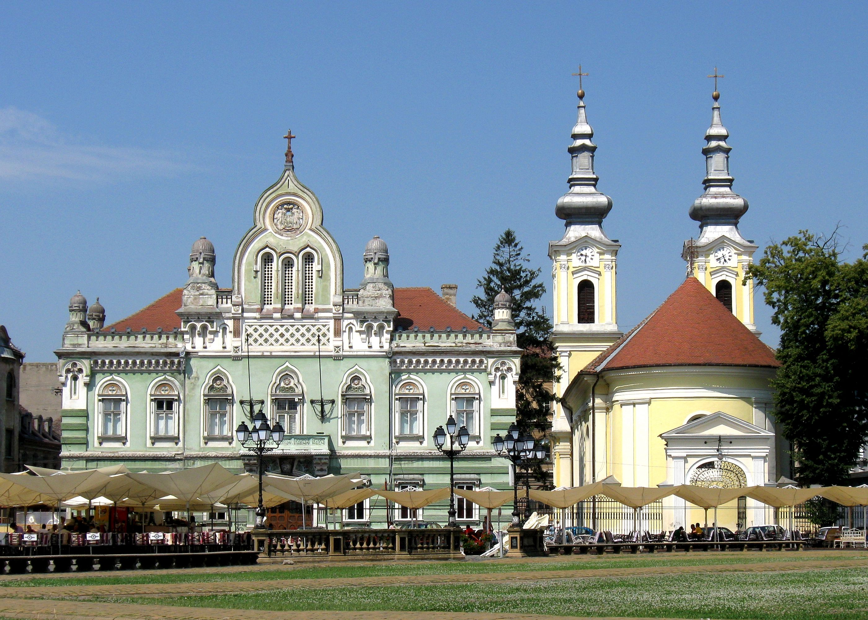 Serbian Orthodox Episcopal Palace and Serbian Orthodox Cathedral, Timișoara, Romania